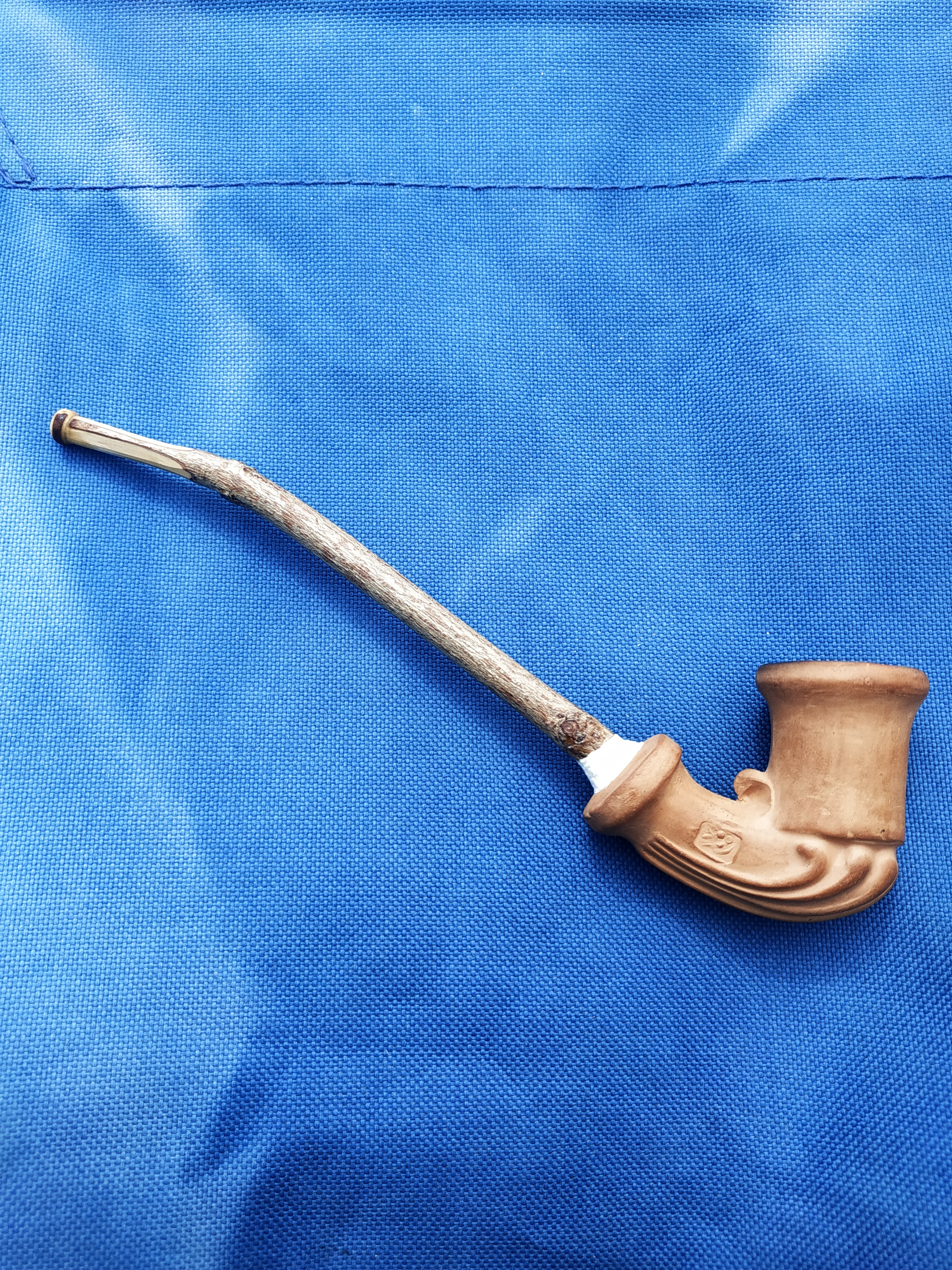 particular type of pipe called "chioggiotta"